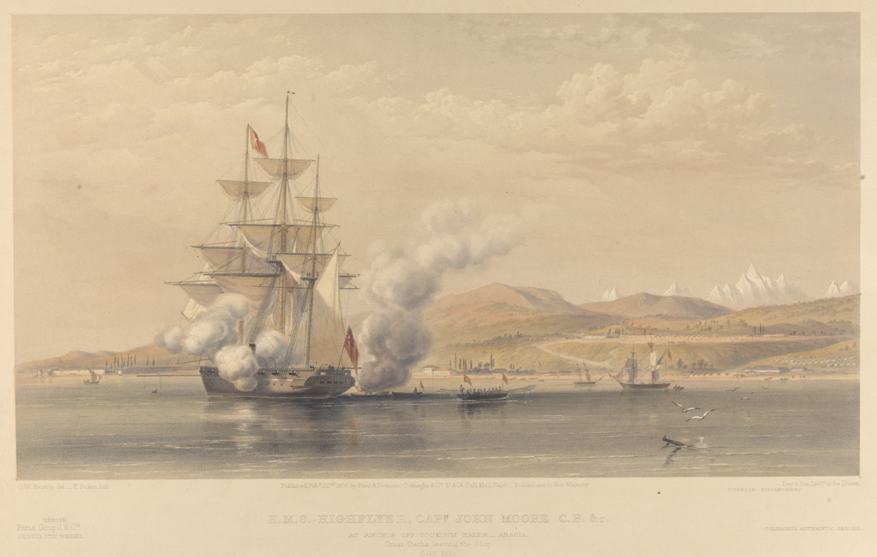 H.M.S. Highflyer Captn John Moore C.B. &c. at anchor off Soukoum Kaleh-Abasia, Omar Pasha leaving the Ship, Octr 1855 Hand-coloured. H.M.S. Highflyer Captn John Moore C.B. &c. at anchor off Soukoum Kaleh-Abasia, Omar Pasha leaving the Ship, Octr 1855